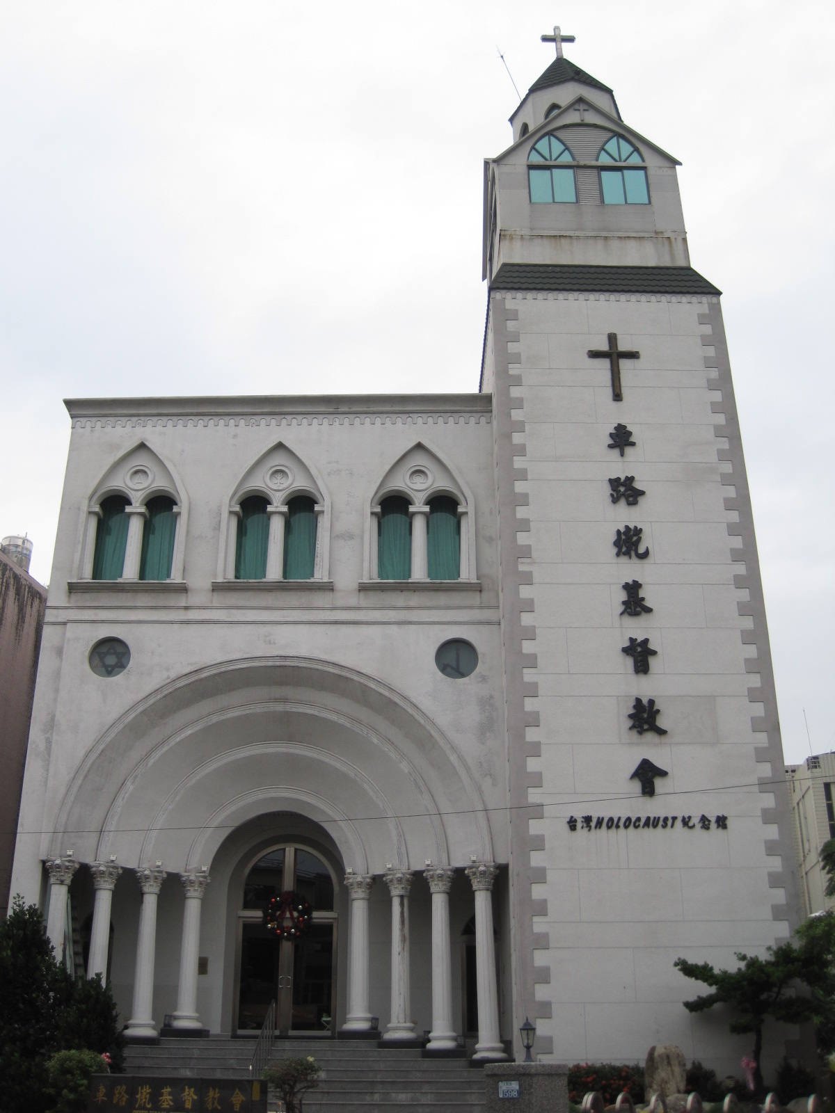 Chelujan Church in Rende District, Tainan. The Church is also Taiwan Holocaust Museum.